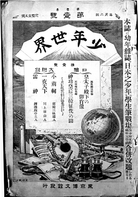 Shōnen Sekai (say Boy's World) was a Japanese magazine for boy-hood issued from 1895 until ca.1933.